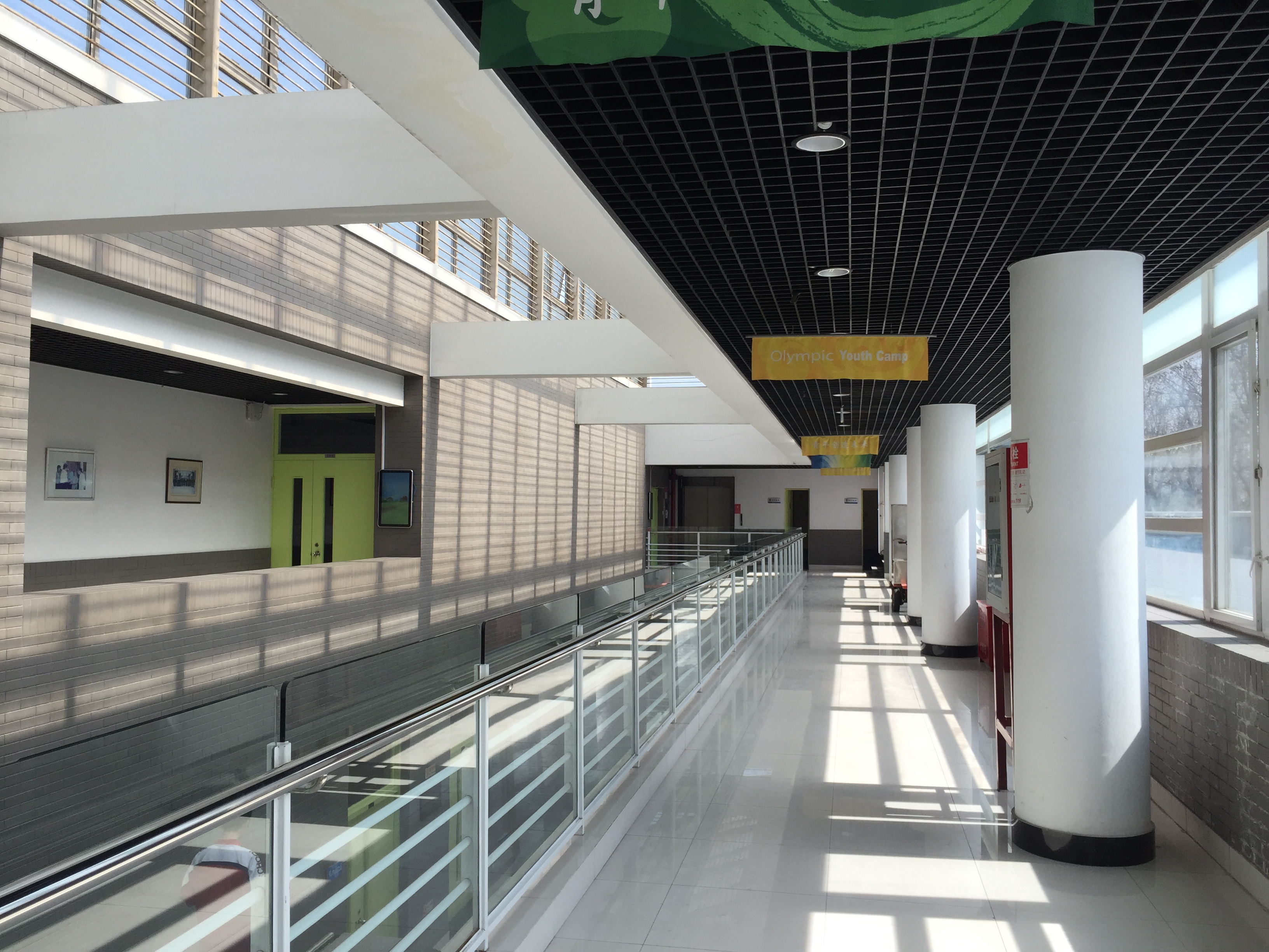 The tallest building in 101? Science building, of course, only 3 floors.